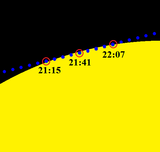 Transit of Mercury Grazing transit as viewed from center of the earth, movement increment 0.005d (7.2 minutes)